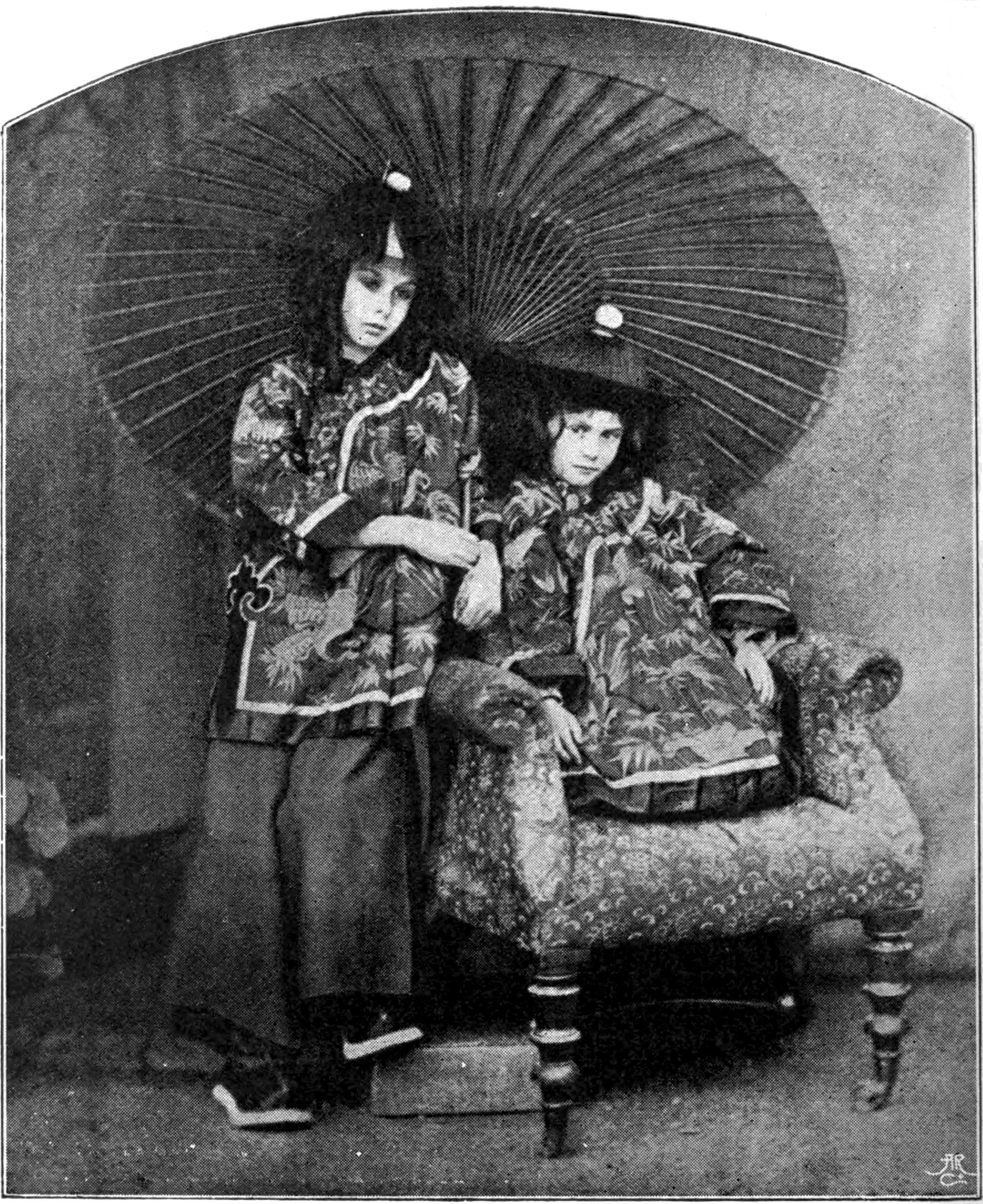 Lorina and Alice Liddell.